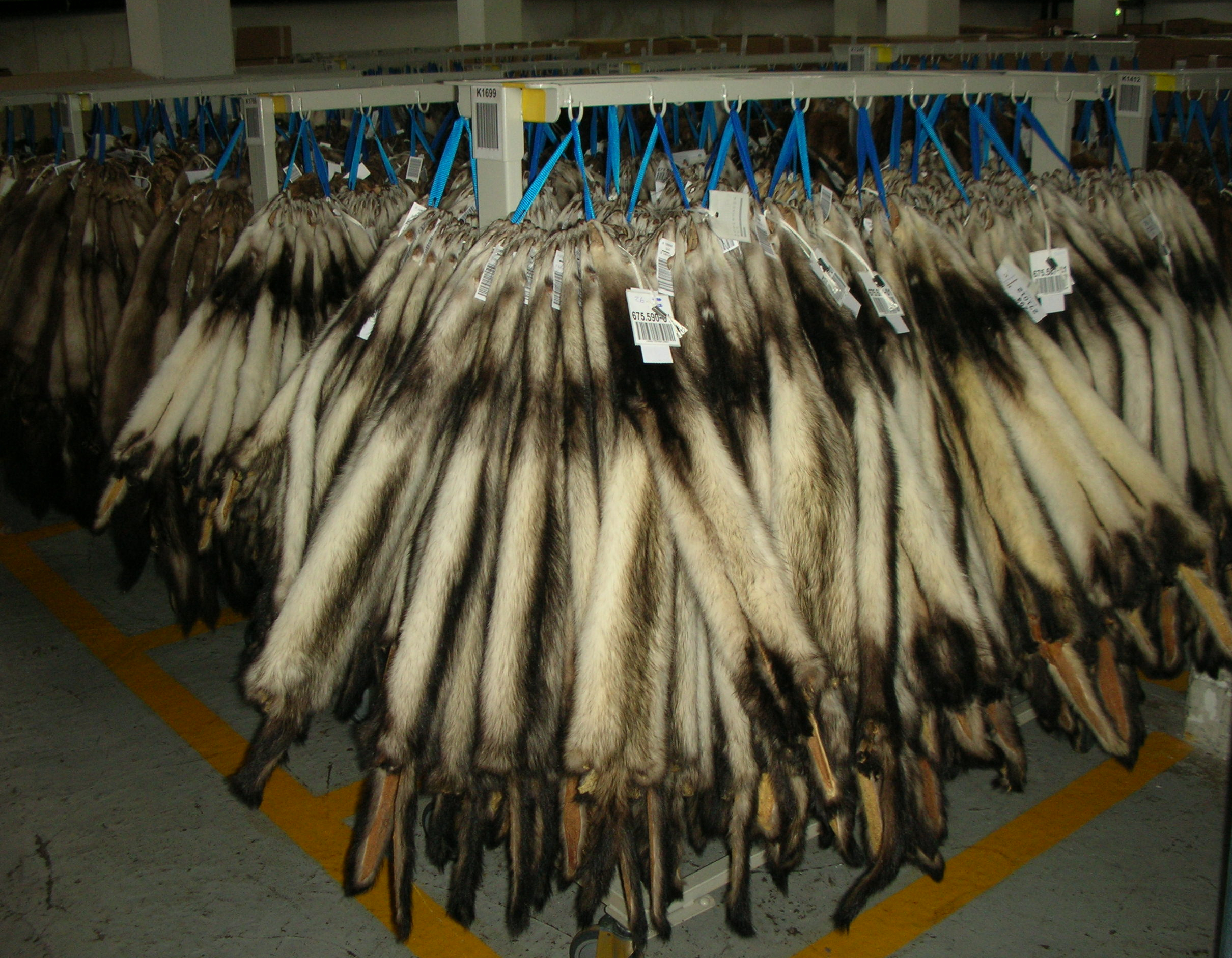 Polecat pelts in the warehouse of the auction house Kopenhagen Fur.